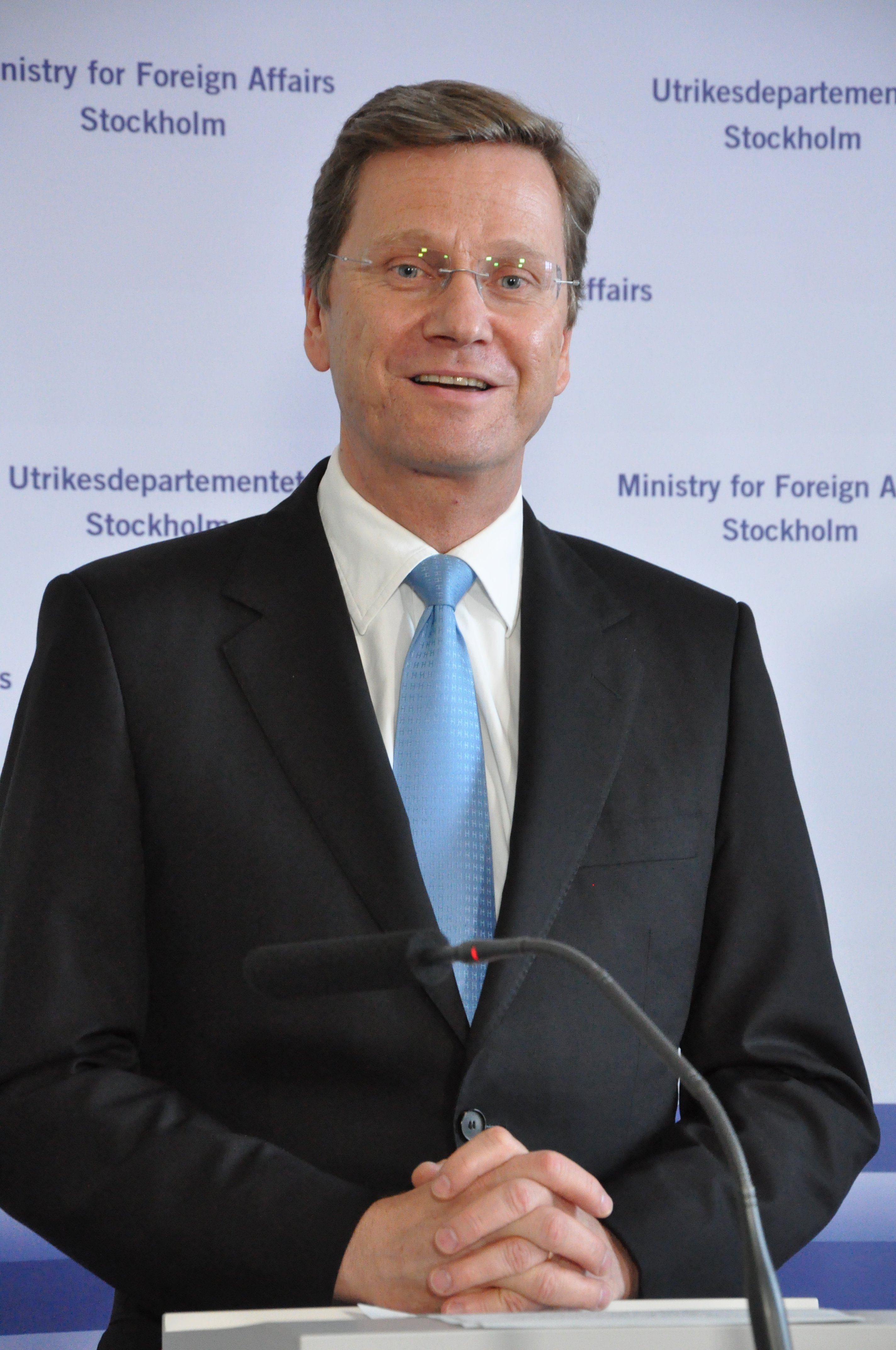 Guido Westerwelle at a meeting with Carl Bildt, at the foreign ministry in Stockholm, Sweden